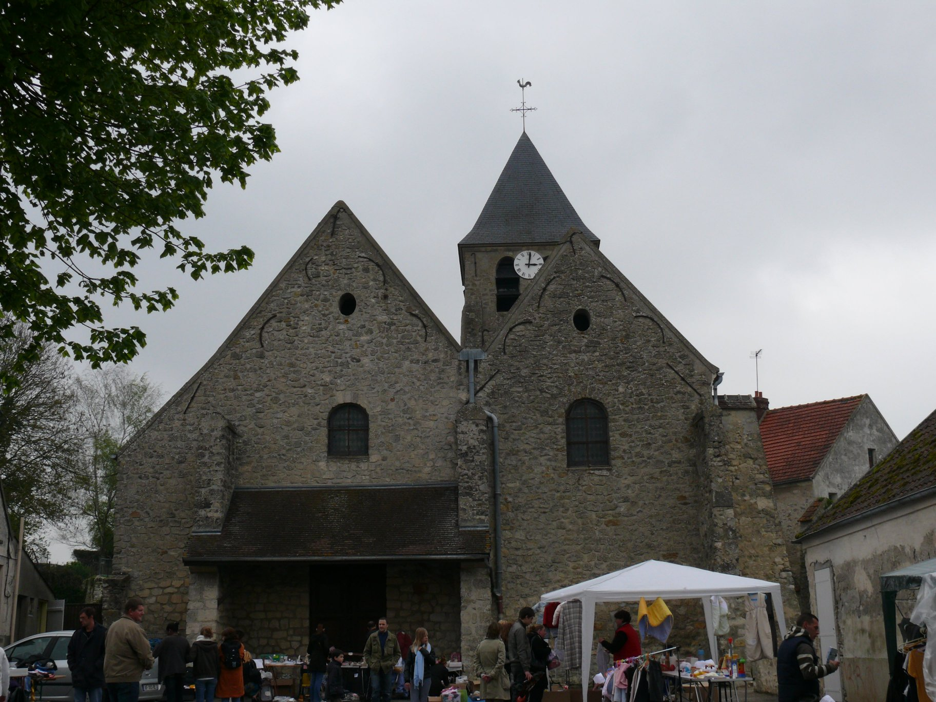 Saint-Peter's church of Brégy (Oise, Picardie, France).